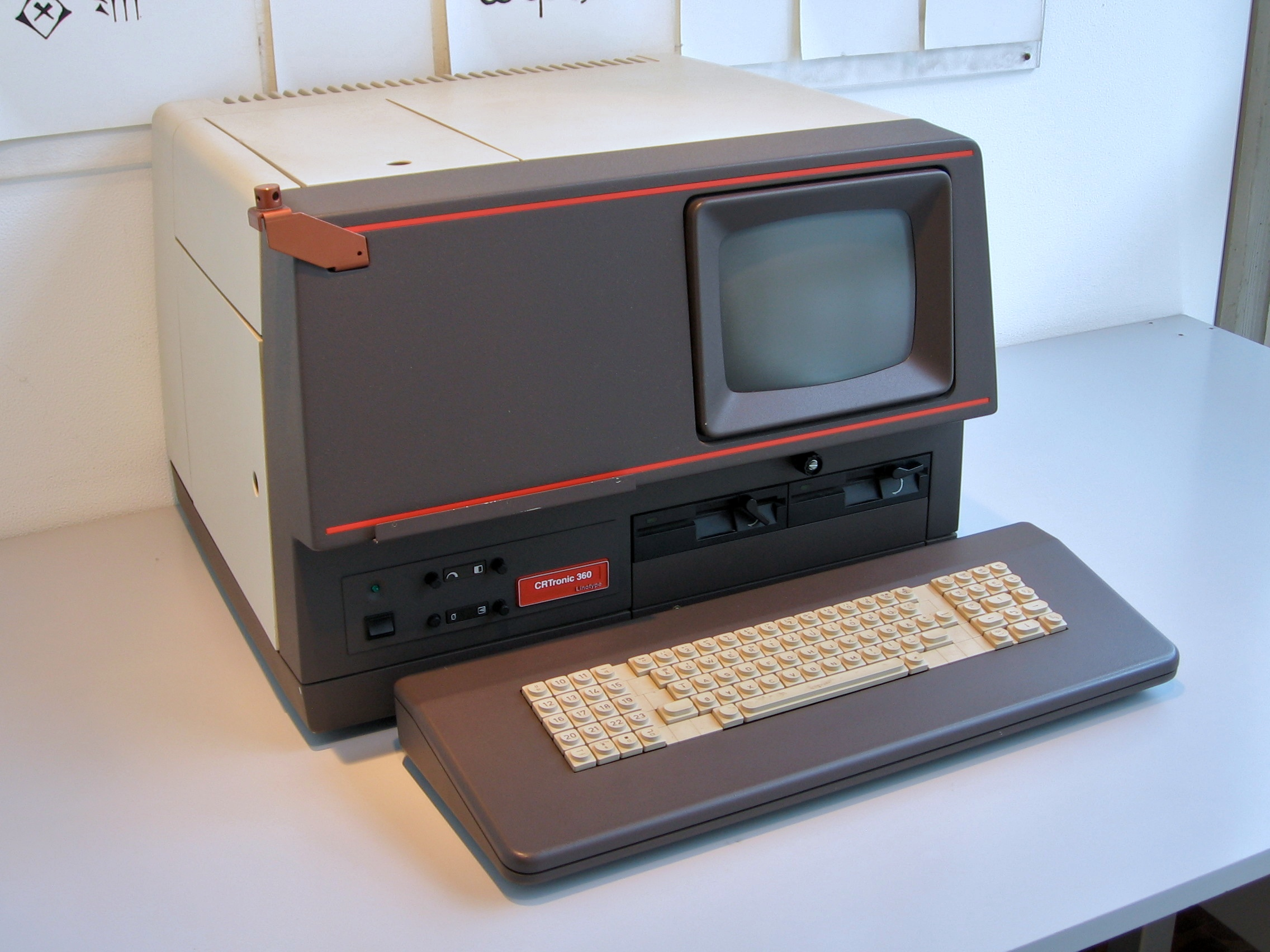 Phototypesetting machine CRTronic 360. It uses a cathode ray tube (CRT) to set-up and process text.